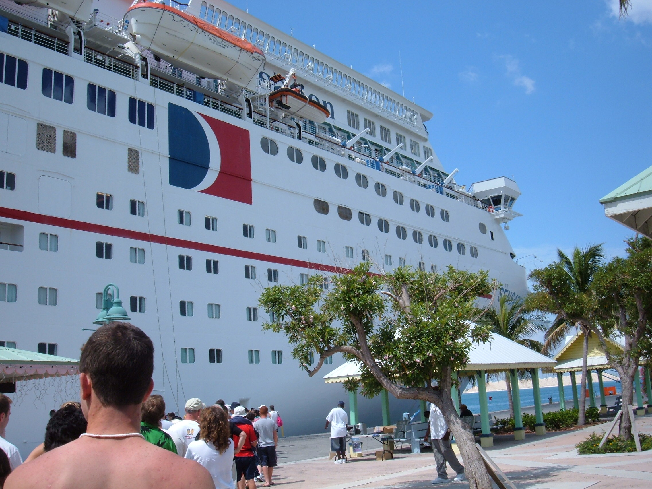 The Carnival Sensation docked at Freeport Harbour, The Bahamas.